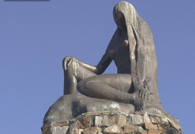 Loreley